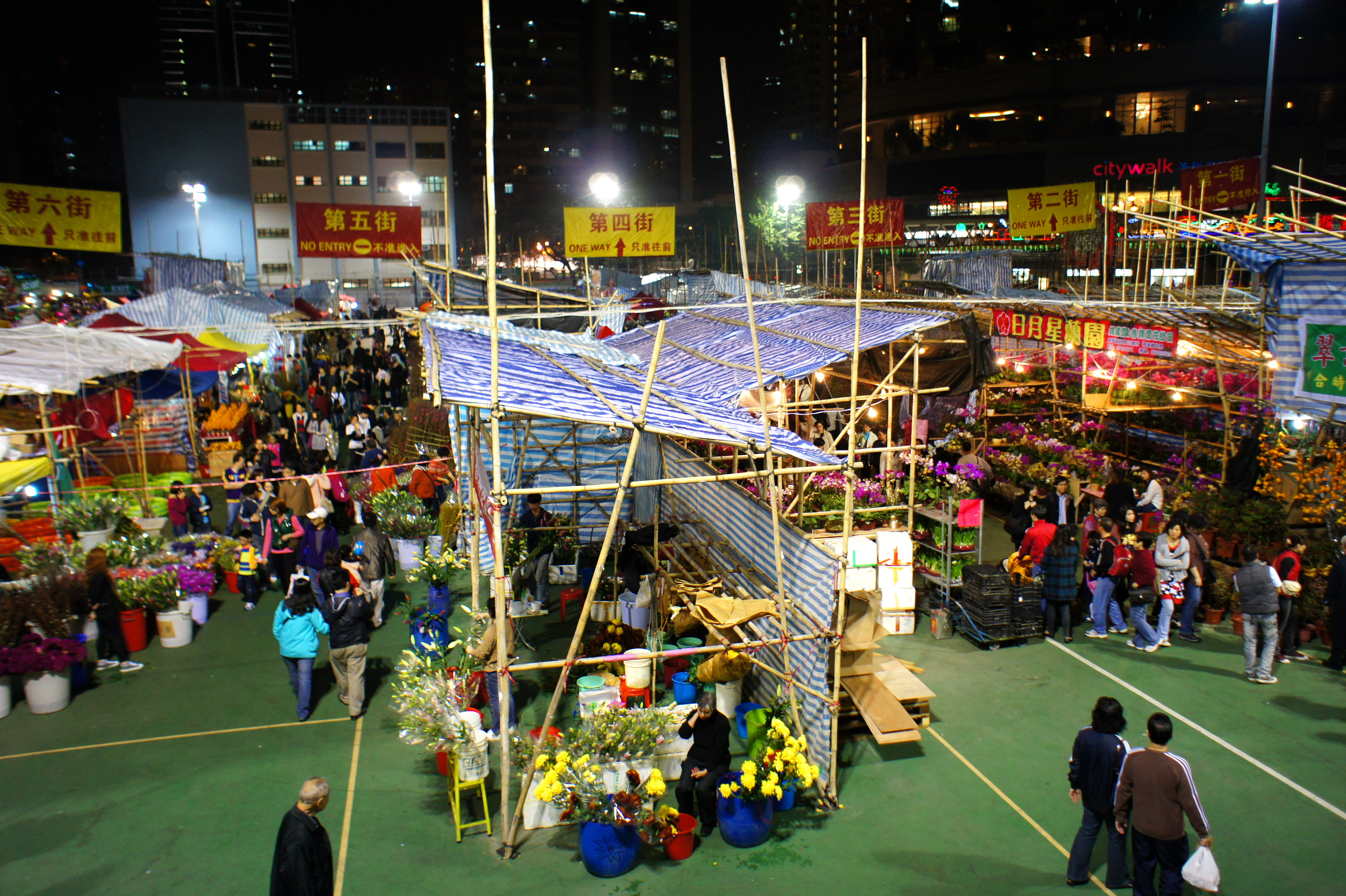 2012 Lunar New year Fair stalls at Sha Tsui Road Playground, Tsuen Wan, New Territories, Hong Kong.